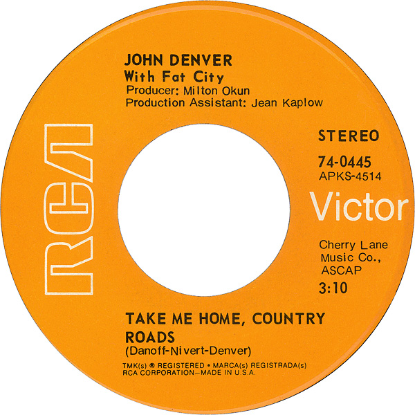 A-side label of "Take Me Home, Country Roads" by John Denver (US vinyl)